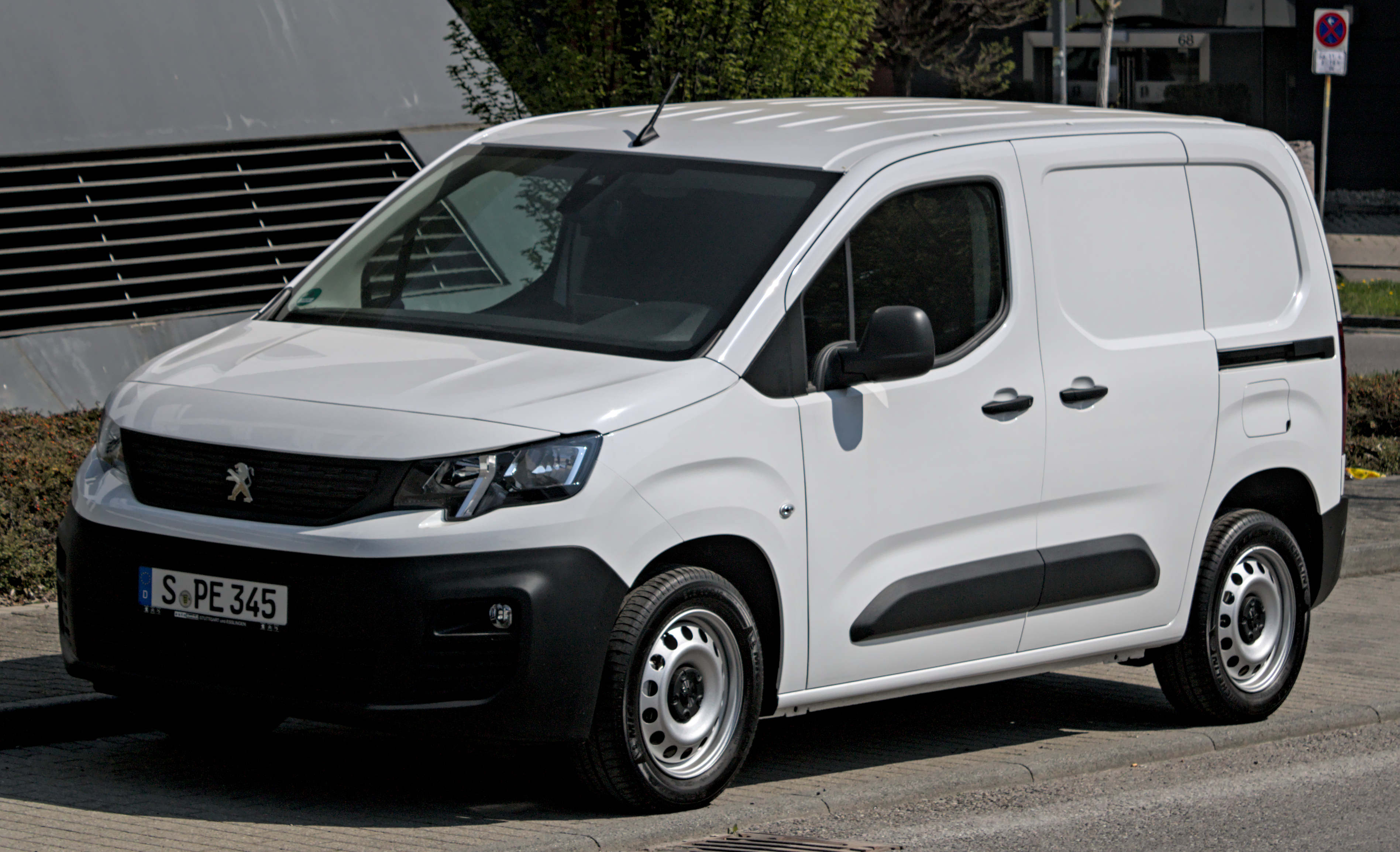 Peugeot_Partner_Mk3 in Stuttgart